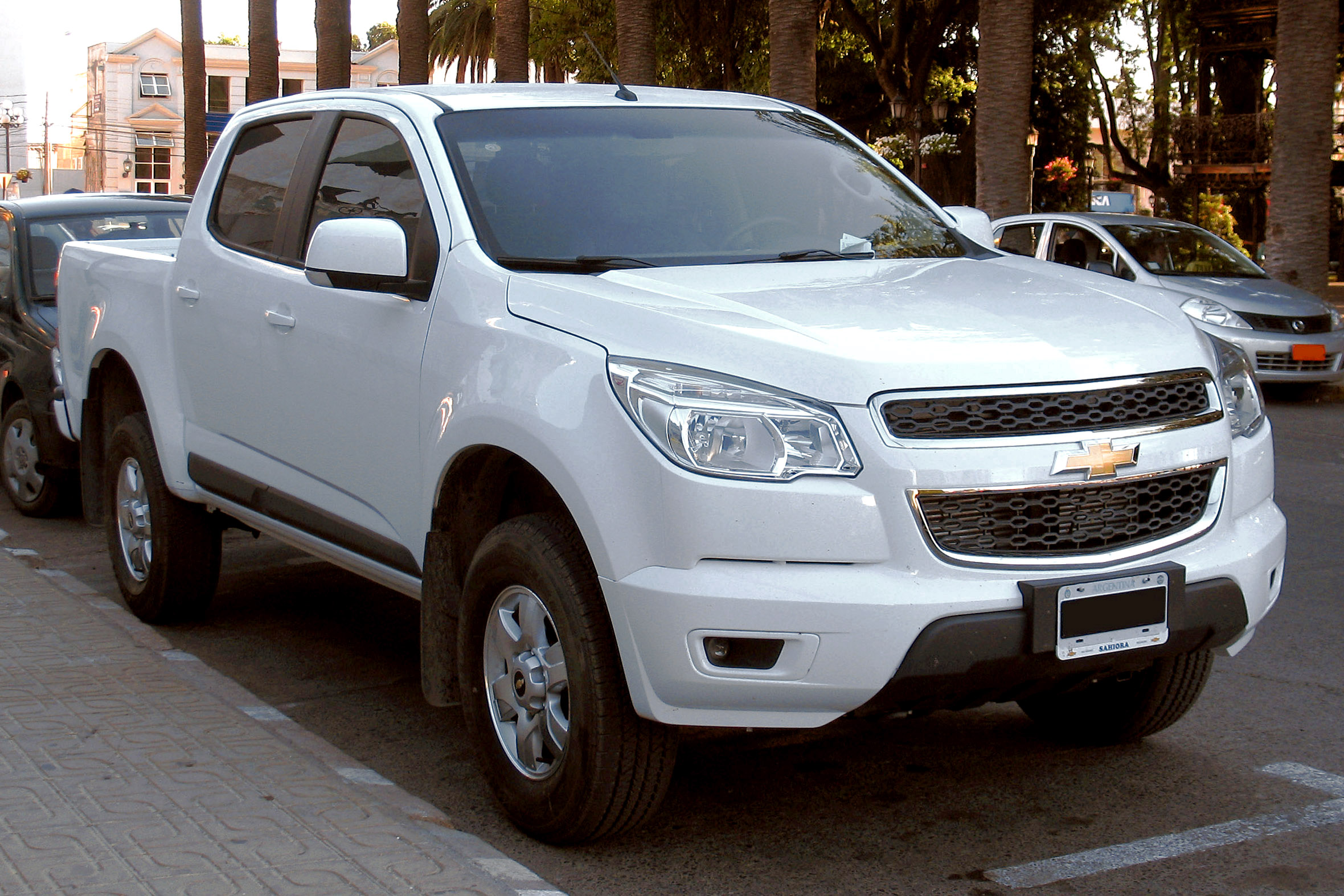 Chevrolet S-10 LT 2.8 TD Crew Cab 2013